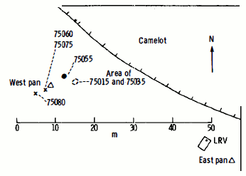 Planimetric map of Station 5 of Apollo 17. Figure 6-113 of Apollo 17 Preliminary Science Report.